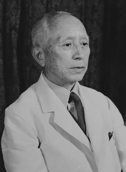 Yoshijiro Umezu during the trial for war crimes at International Military Tribunal for the Far East